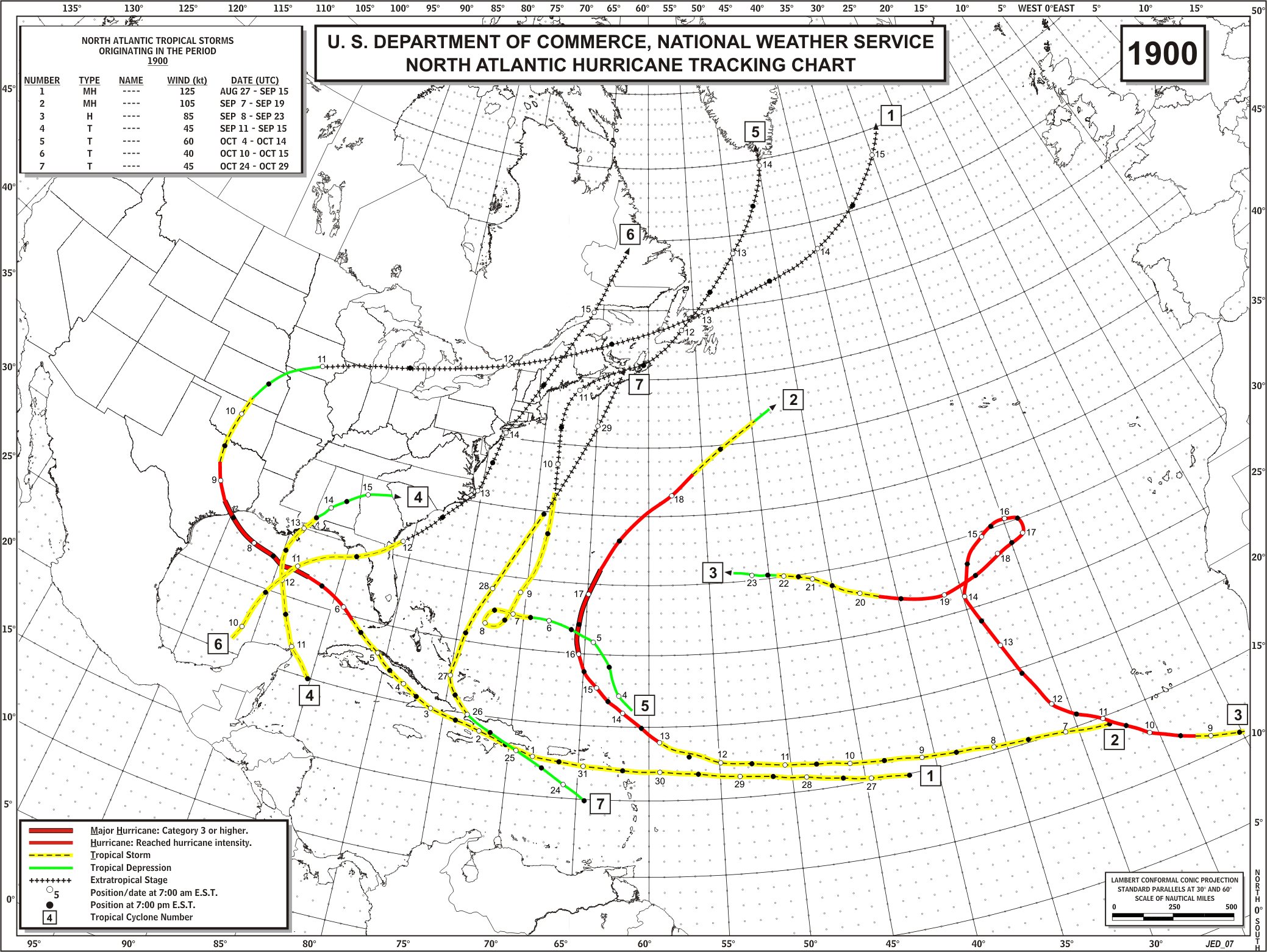 Season summary provided by NOAA of the 1900 Atlantic hurricane season.